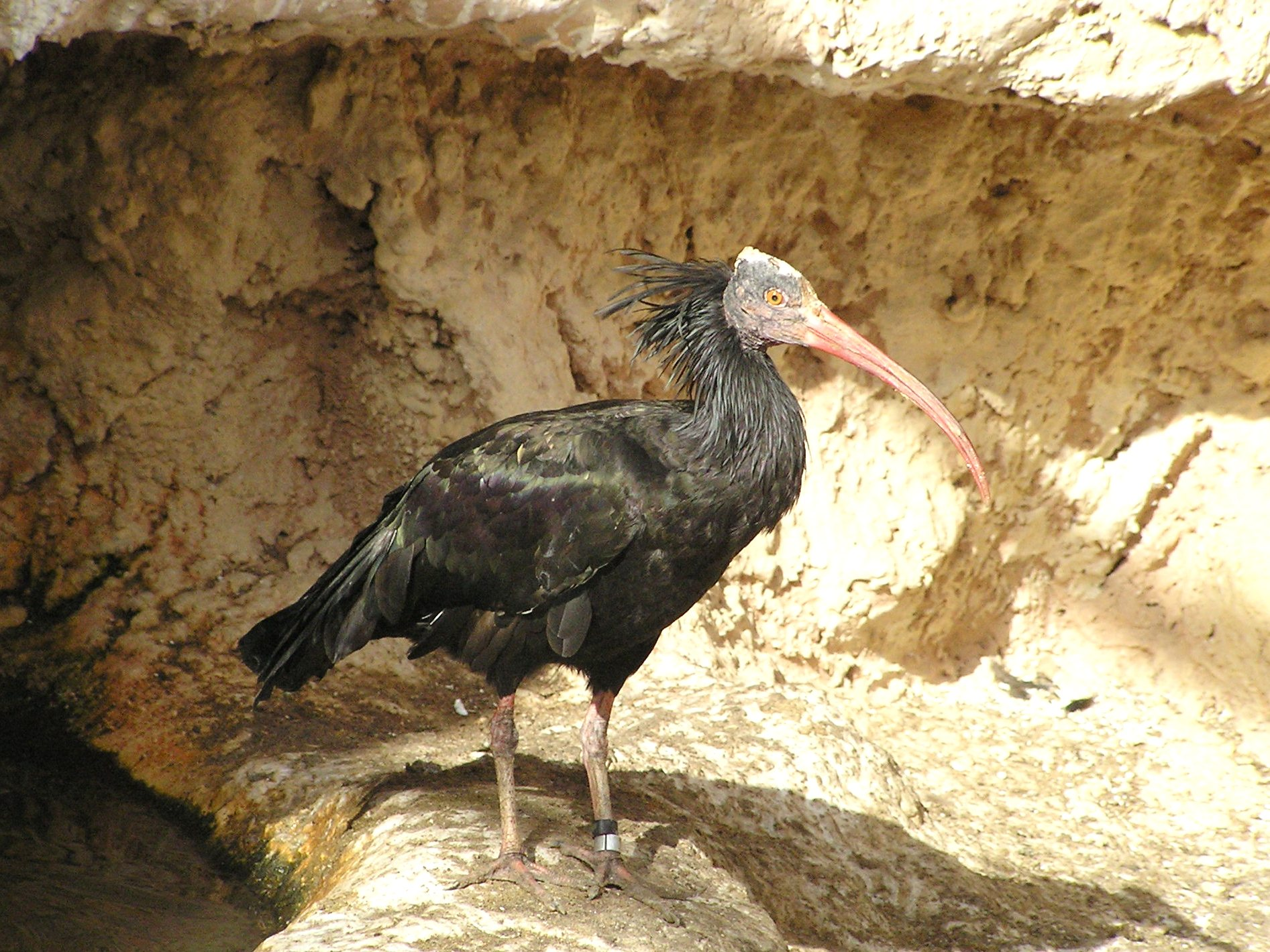 Taken in the Garden for Zoologic Research, Tel Aviv University, Israel.